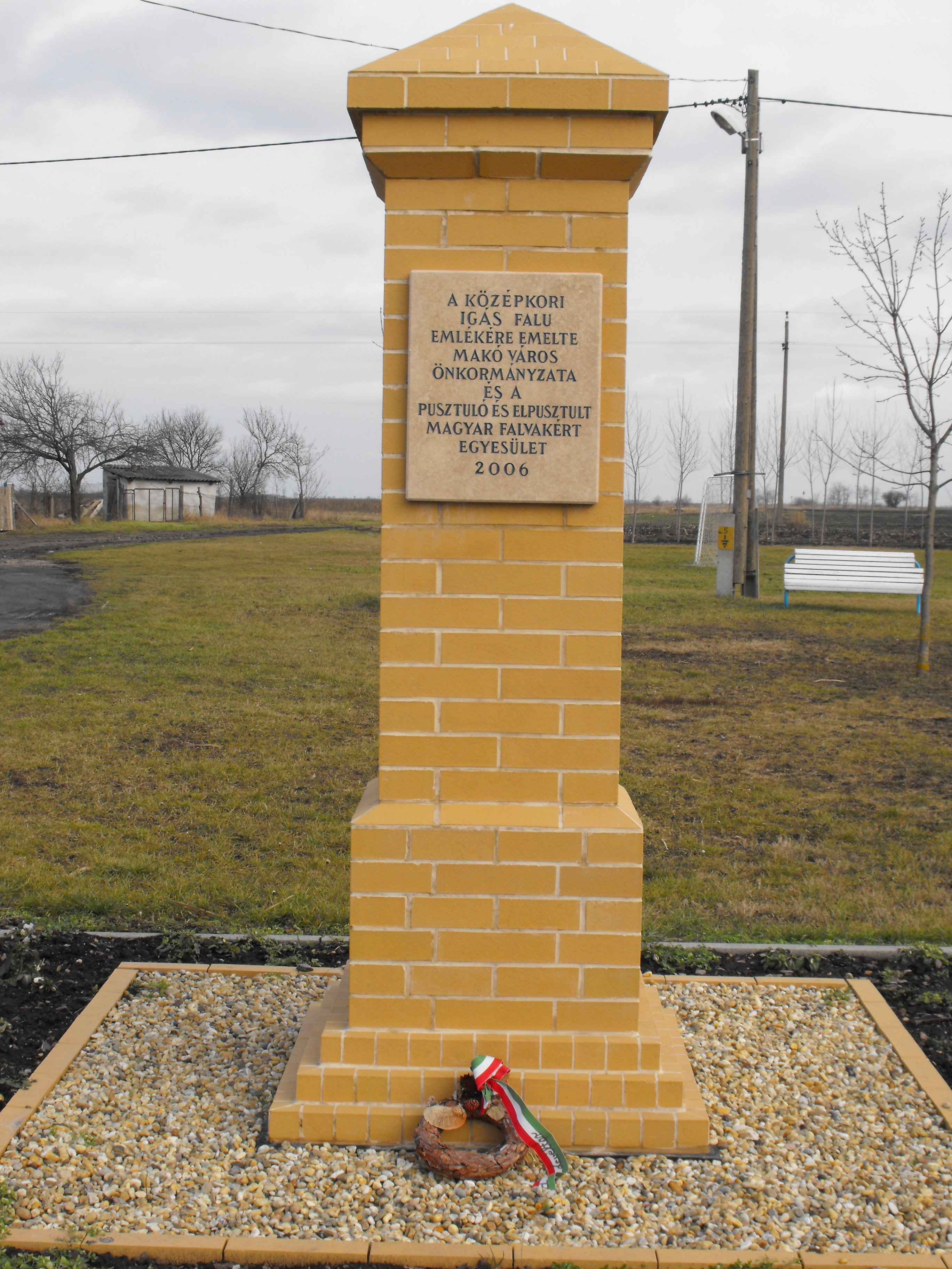 Memorial column in Igás, periphery of Makó, Hungary.